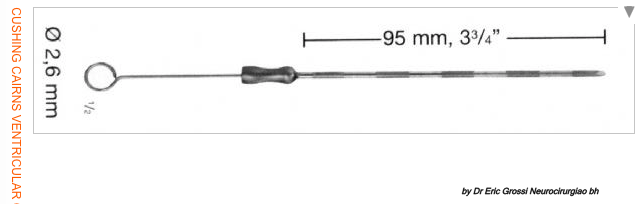 Cushing cannula is a Inox needle for cerebral ventricular puncture